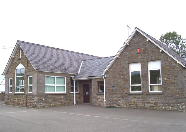 Llwyncelyn School. Penlon Primary School at Llwyncelyn.